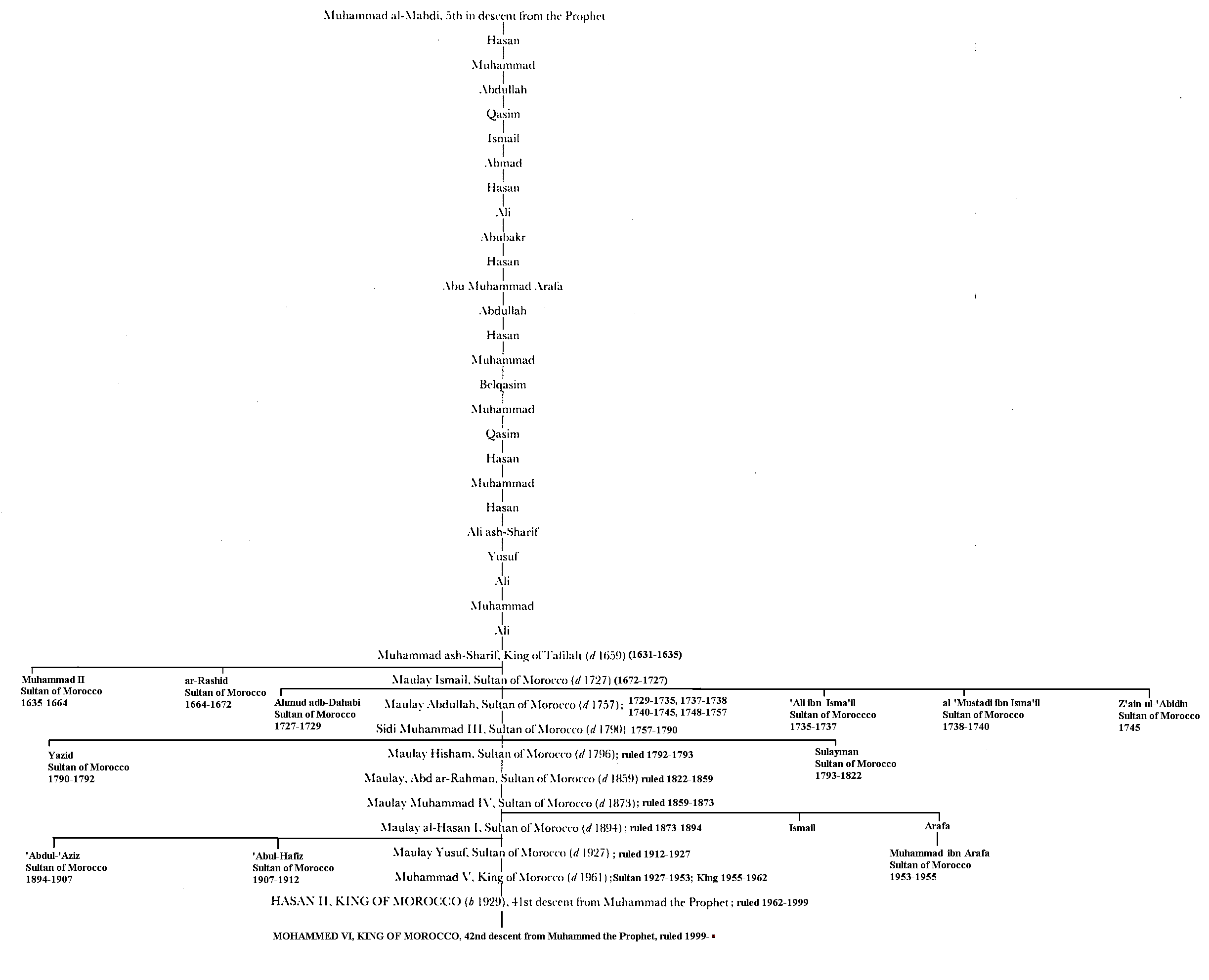 Descent of the Alouids from the Prophet and family tree.